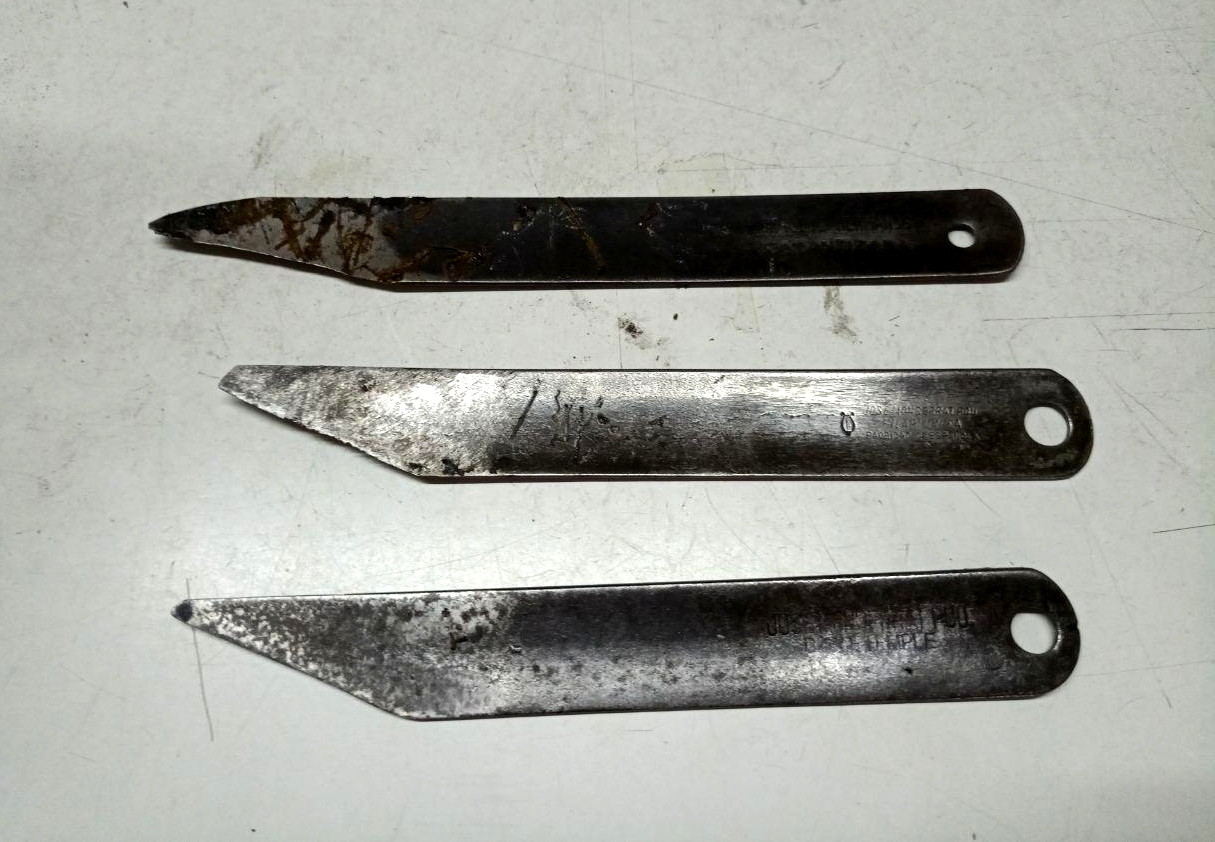 Falcilles used in Spain by the typical "zapatero remendón"